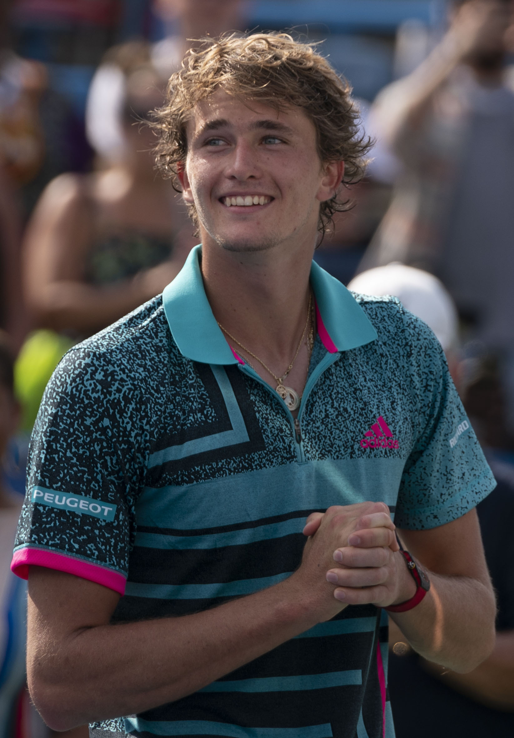 2018 Citi Open Tennis Finals